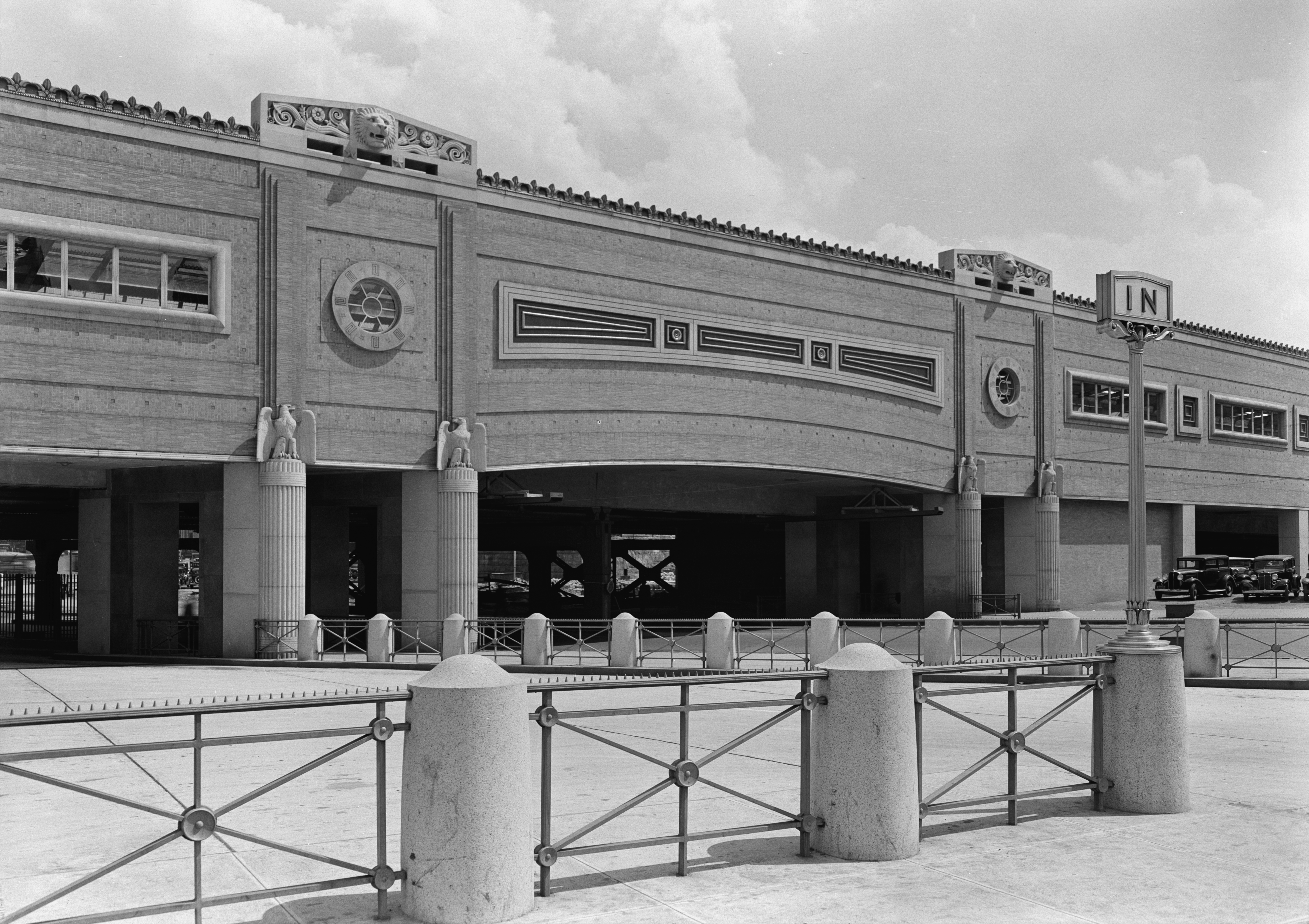 Newark passenger station, Pennsylvania Railroad. Platform bridge over Market St.